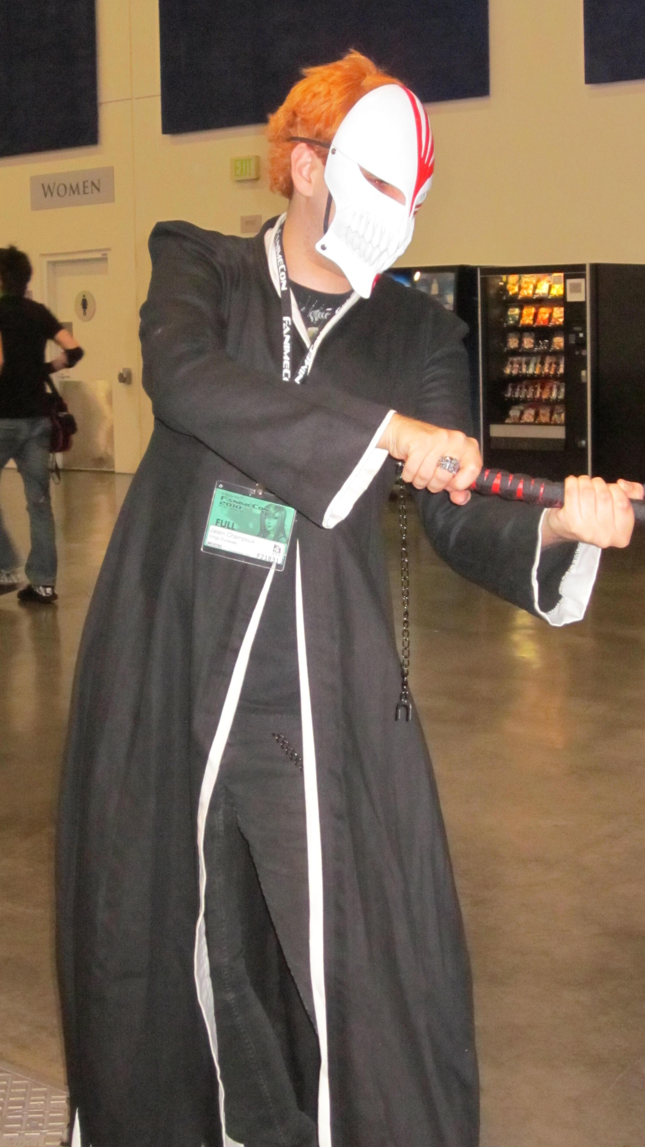 A cosplayer portraying Ichigo Kurosaki from Bleach at FanimeCon 2010 in San Jose, California.